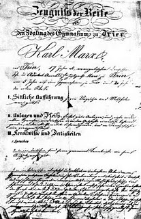 Certificado da transferência de Marx da Univ. de Bonn onde consta a prisão de Marx por um dia devido a aruaças.